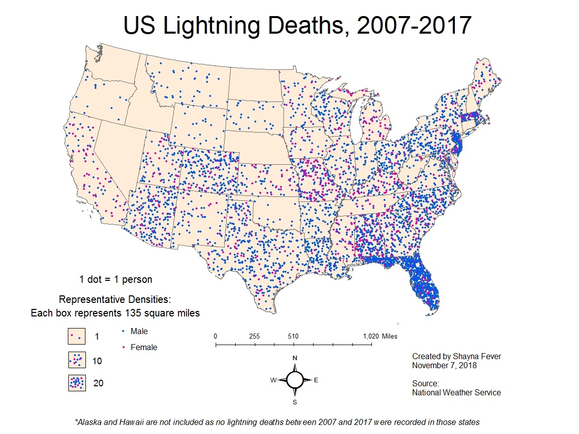 A dot density map portraying male and female deaths by lightning strike between 2007 and 2017.